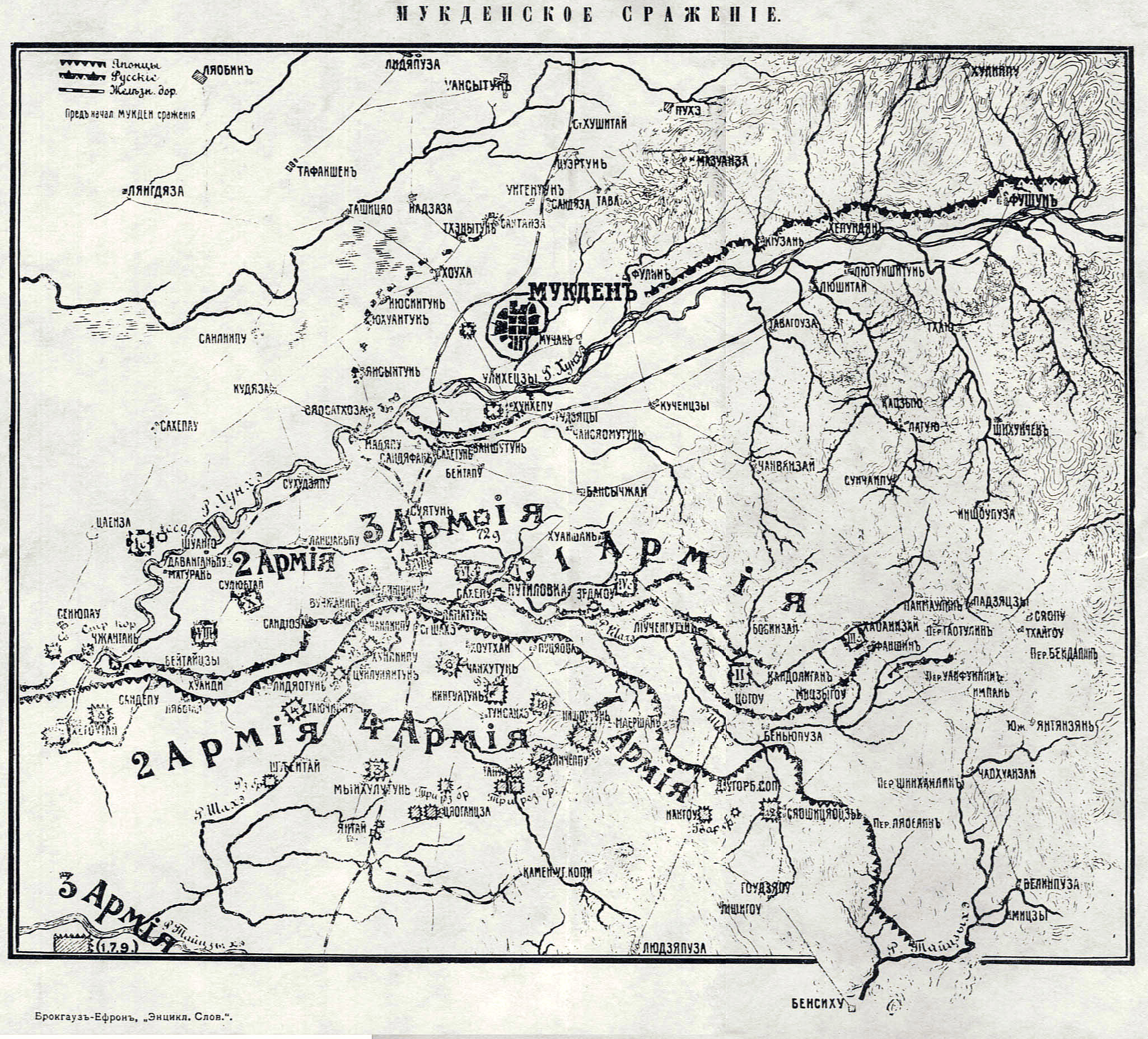 Illustration from Brockhaus and Efron Encyclopedic Dictionary (1890—1907)